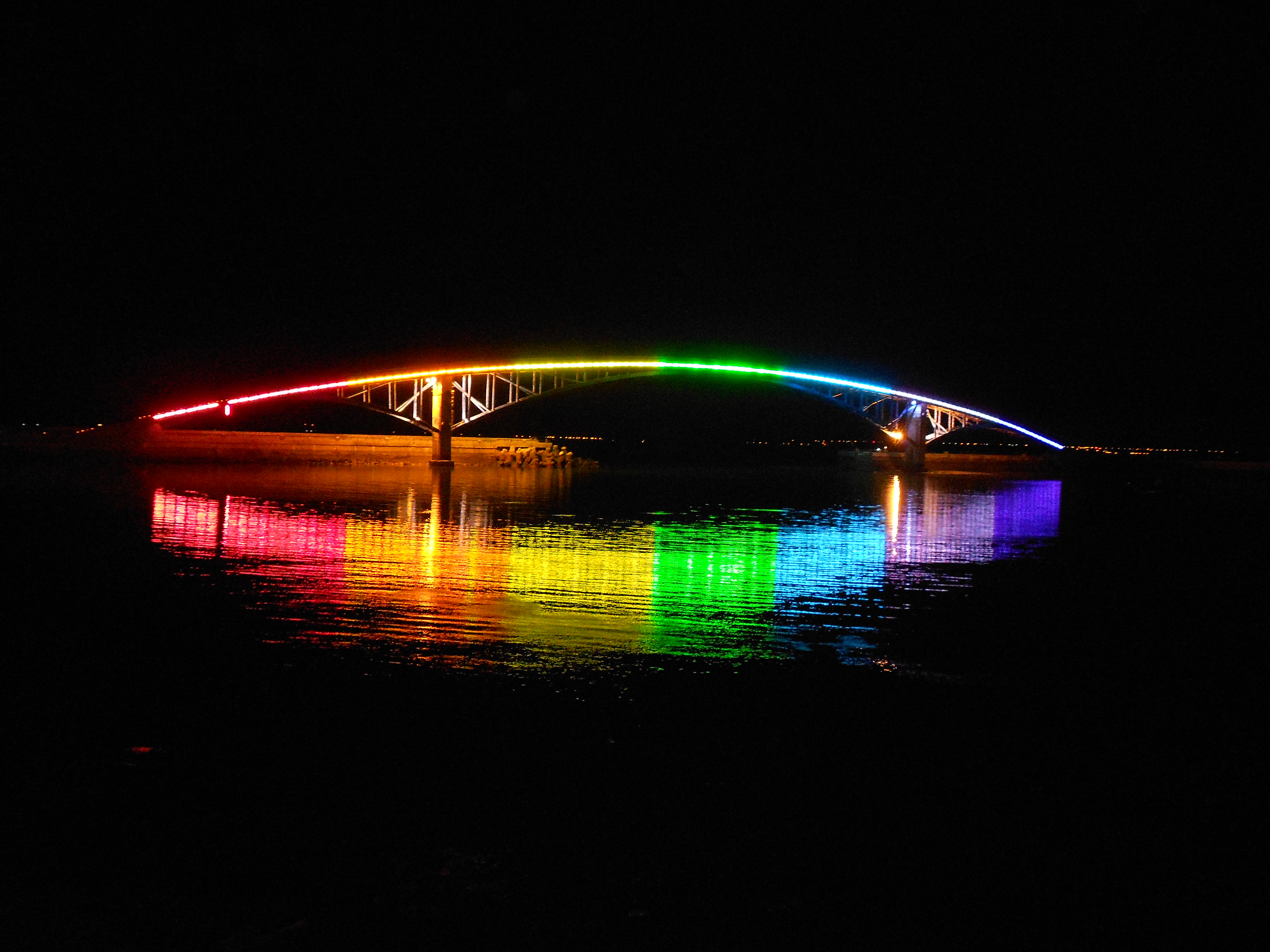 Penghu West Ying Hongqiao at night